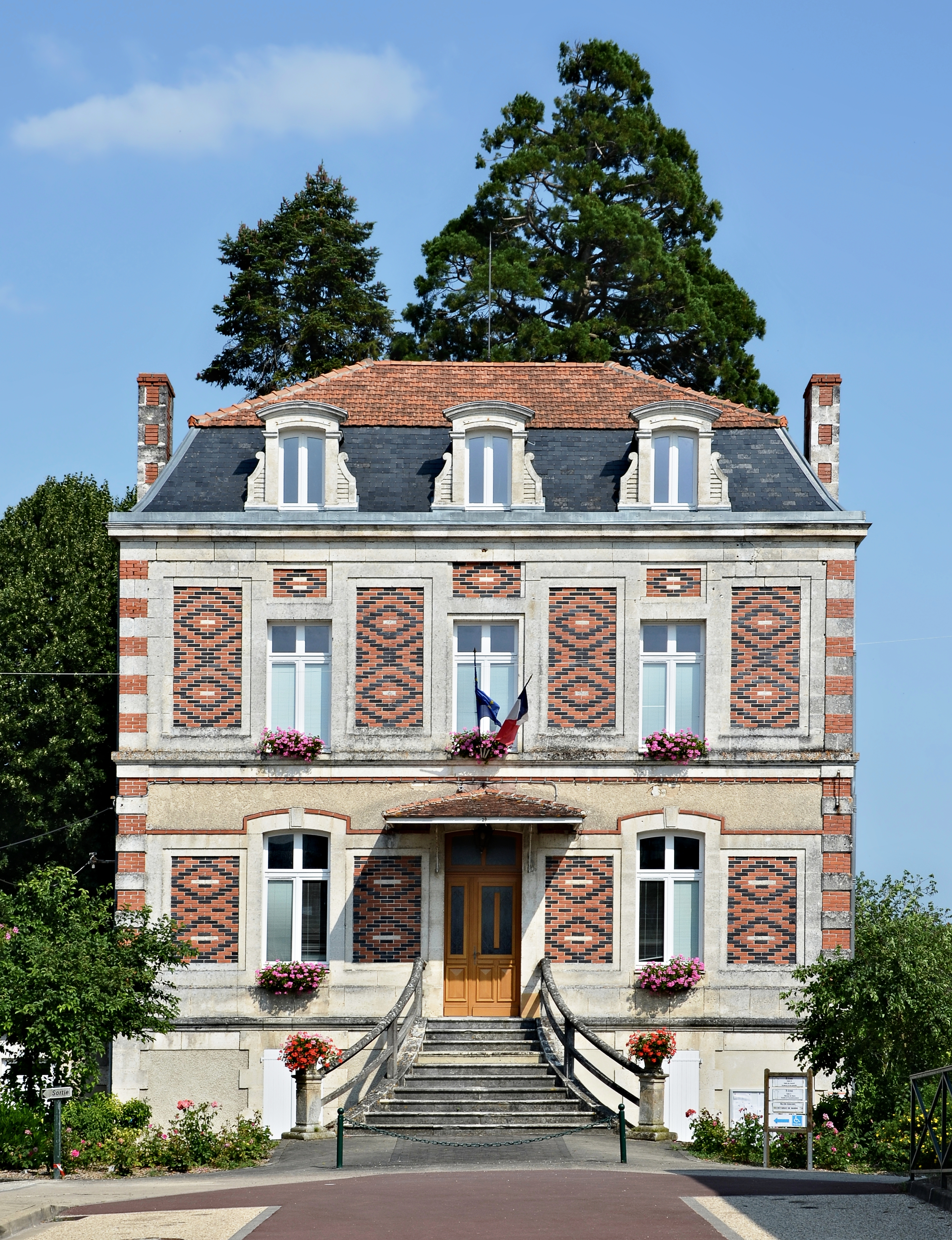 City hall (facade) of Montmoreau-Saint-Cybard, Charente,France.